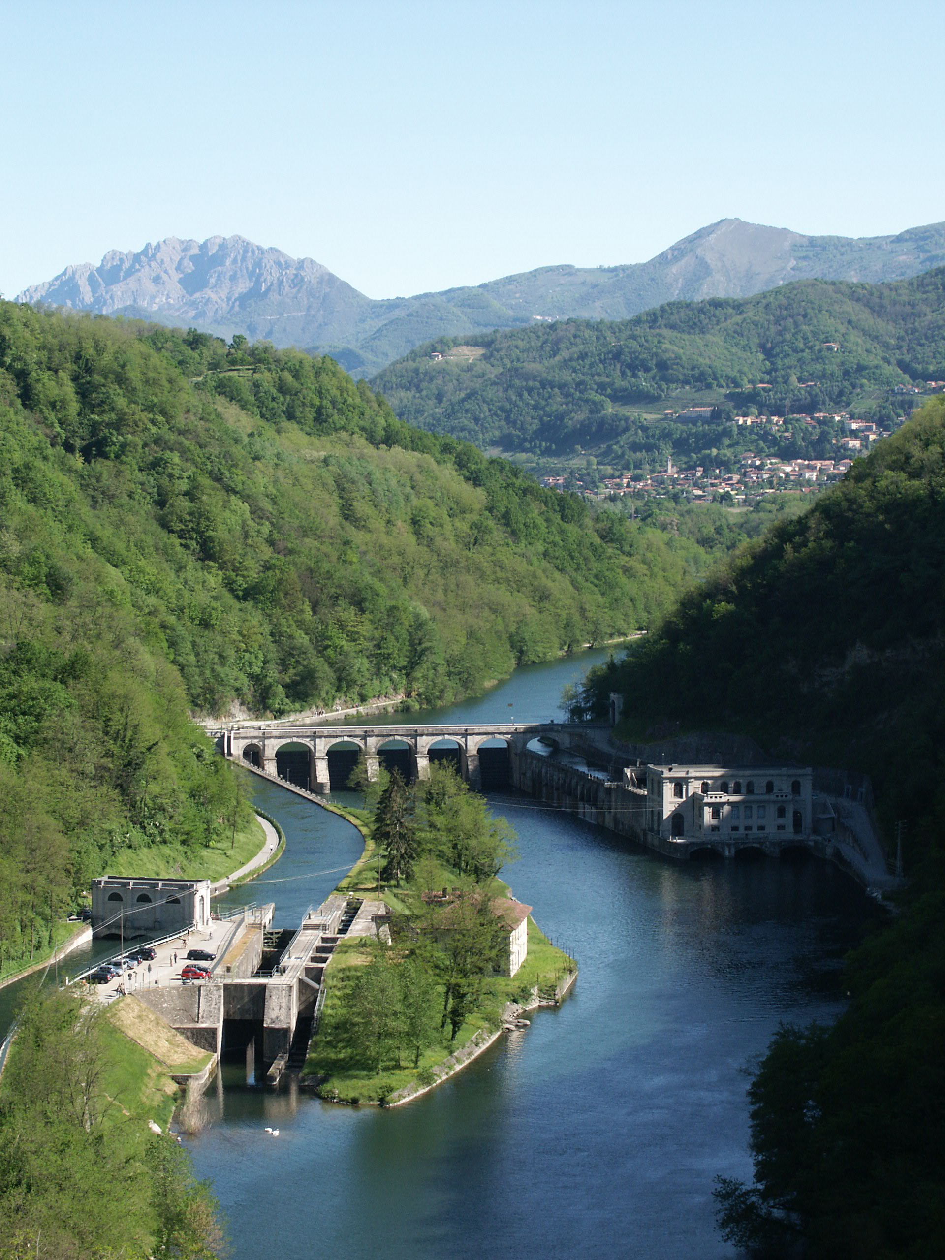 Semenza hydroelectric plant, Calusco sull'Adda, Lombardy, Italy Picture shot by Utente:Frieda